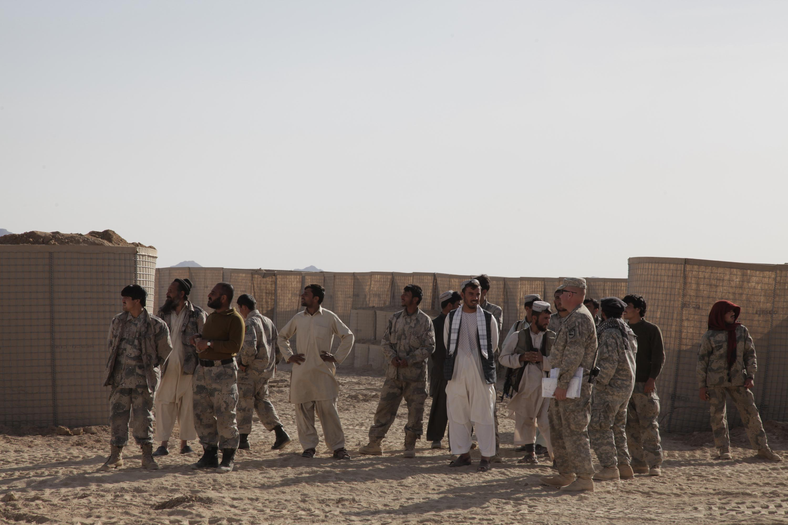 U.S. Army Lt. Col. David E. Haugh, commander, 3rd Zone, Afghan Border Police, Security Forces Advisory Team, speak to ABP regarding Operation Paksazi Mojada in the Shorabak District, Kandahar province, March 11, 2011. Operation Paksazi Mojadad is a six-day long, joint operation to build an ABP checkpoint in the Shorabak District.